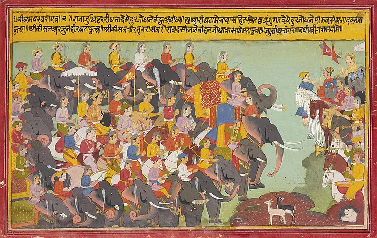 PROPERTY OF A NEW JERSEY COLLECTOR In this illustration from the Bhishma Parva of the Epic the Pandava and Kaurava armies are shown arrayed before each other on the battlefield of Kurukshetra. Duryodhana, leader of the Kaurava army, is seen at the center of his forces on the left, beneath a white parasol. Opposite are his cousins the Pandavas, led by Krishna and Arjuna who blow their conches marking the start of hostilities in this cataclysmic battle. Opaque watercolor heightened with gold on paper image 9 3/4 by 15 3/4 in. (24.8 by 40 cm) folio 10 5/8 by 16 1/2 in. (27 by 42 cm) circa 1700 India, Mewar